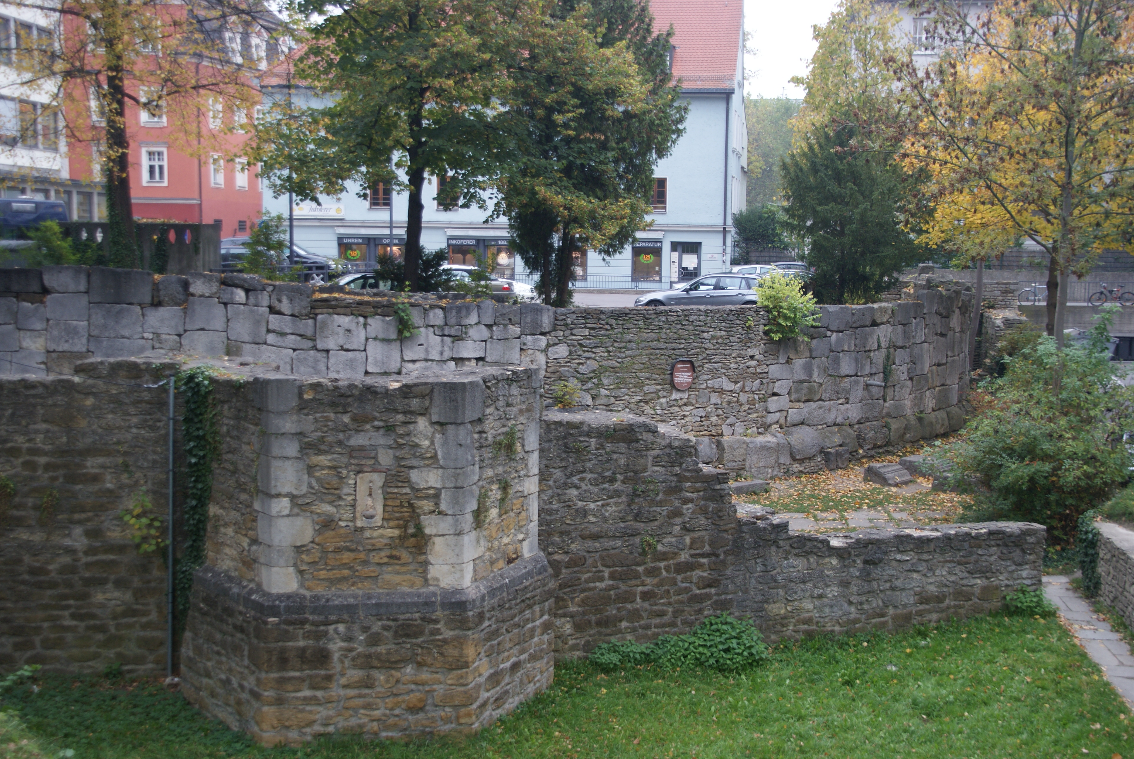 South-Eastern corner of the roman fortifications with a medieval outer ward in the foreground